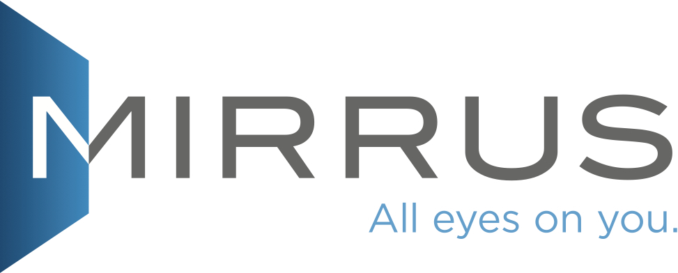 Mirrus Logo